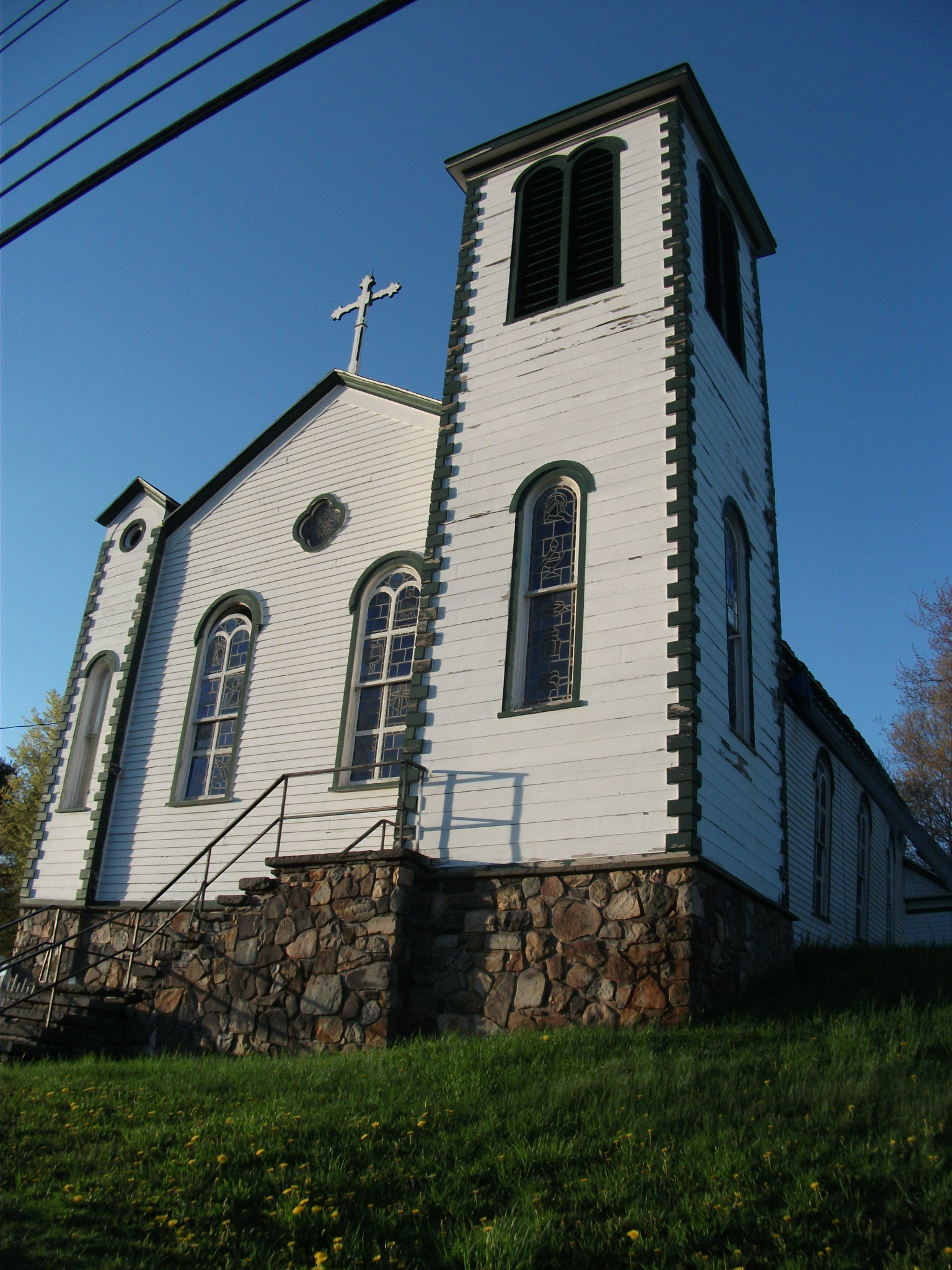 Church in Hunter, New York